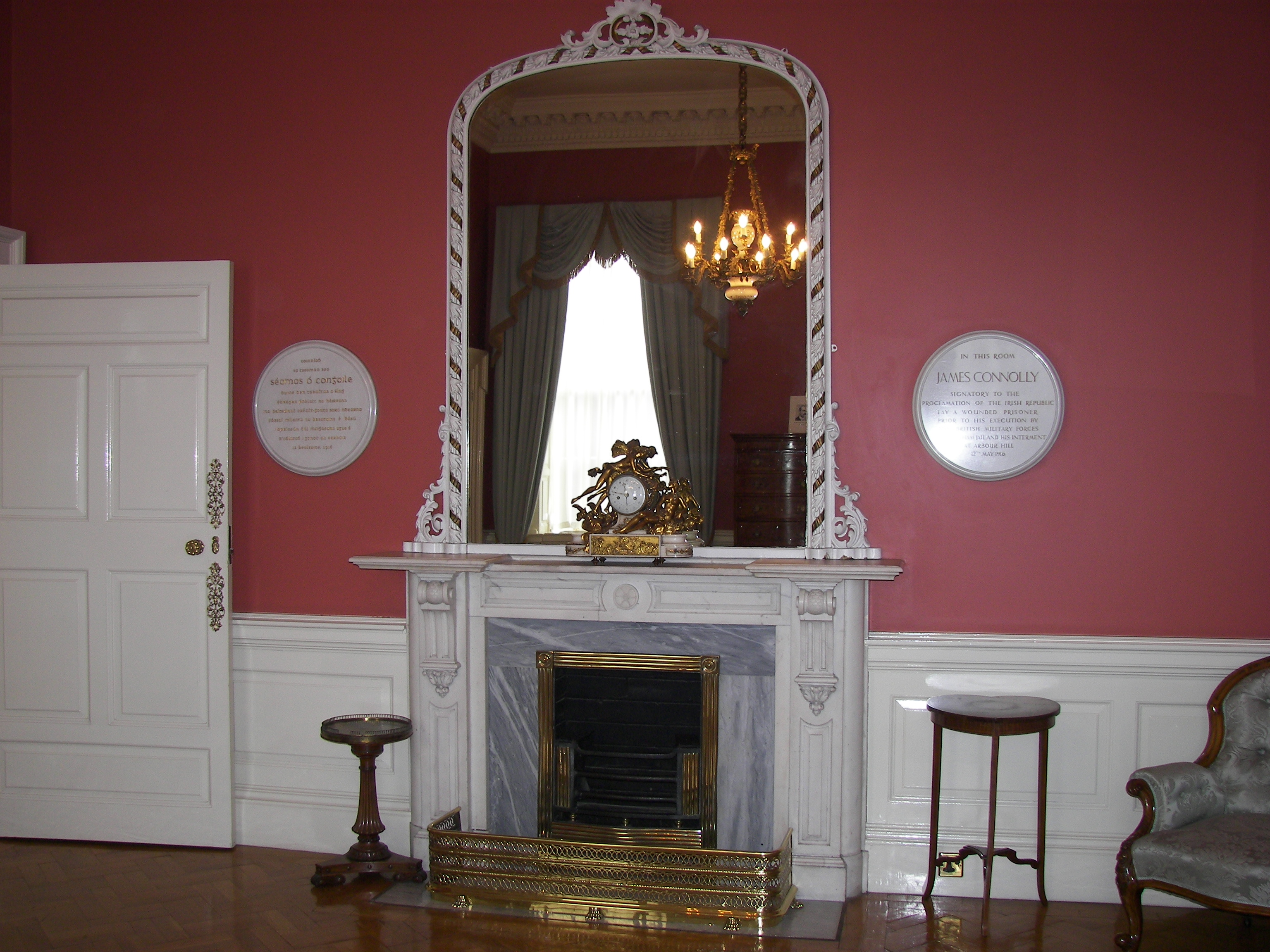 Connolly room of the Dublin Castle State Apartments.